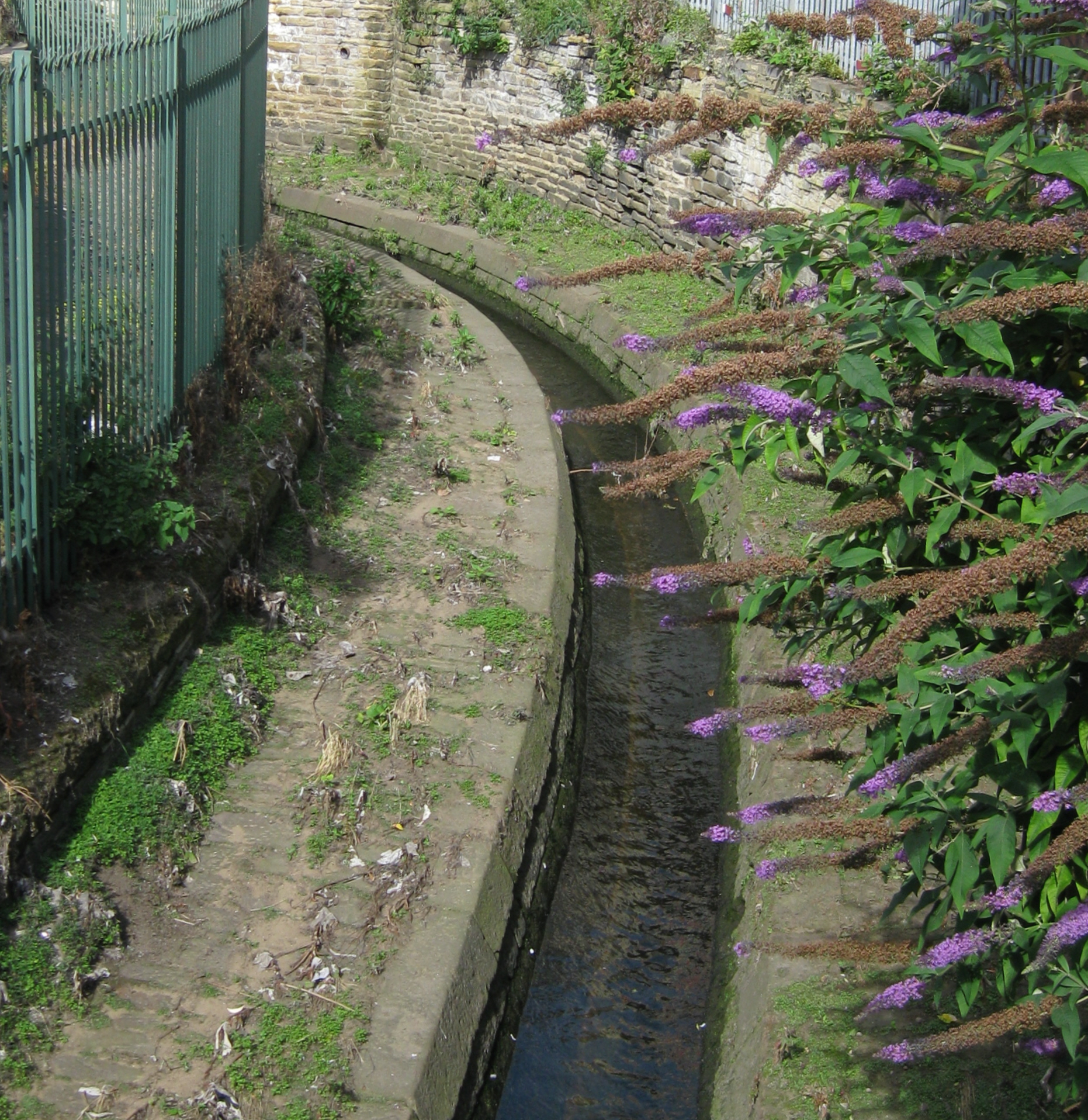 The stream known as Lady Beck in Mabgate, Leeds. A continuation of the Meanwood Beck. Viewed from Skinner Lane.